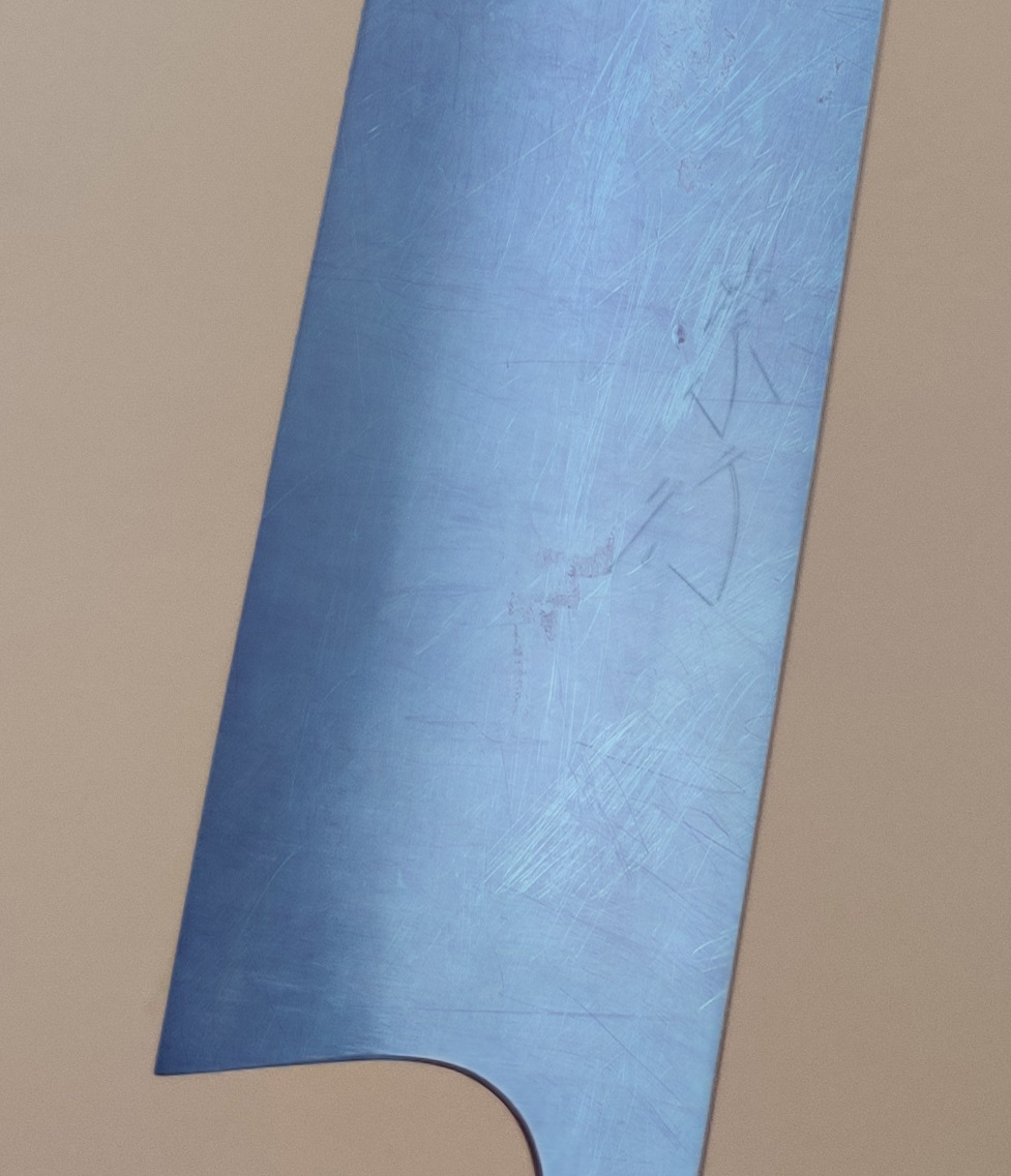 deeply scratched Shibata Kotetsu from atoma 140, patina forced on R2 and stainless cladding after 17.5 days of immersion at 40 degrees celcius